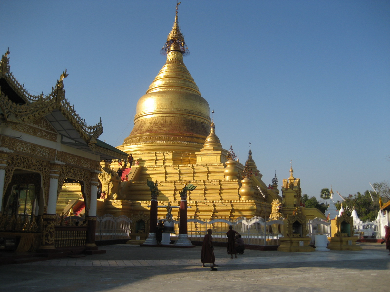 Kuthodaw Pagoda, Mandalay, Myanmar, from the southeast terrace. Note the main shrine hall to the left of picture, the stairs to the upper terraces behind, the bell in centre foreground hung on pillars topped by a galon (garuda) grabbing a naga by its tail, two small shrines for planetary posts to the right of picture; the corner chinthe has a bifid rump.